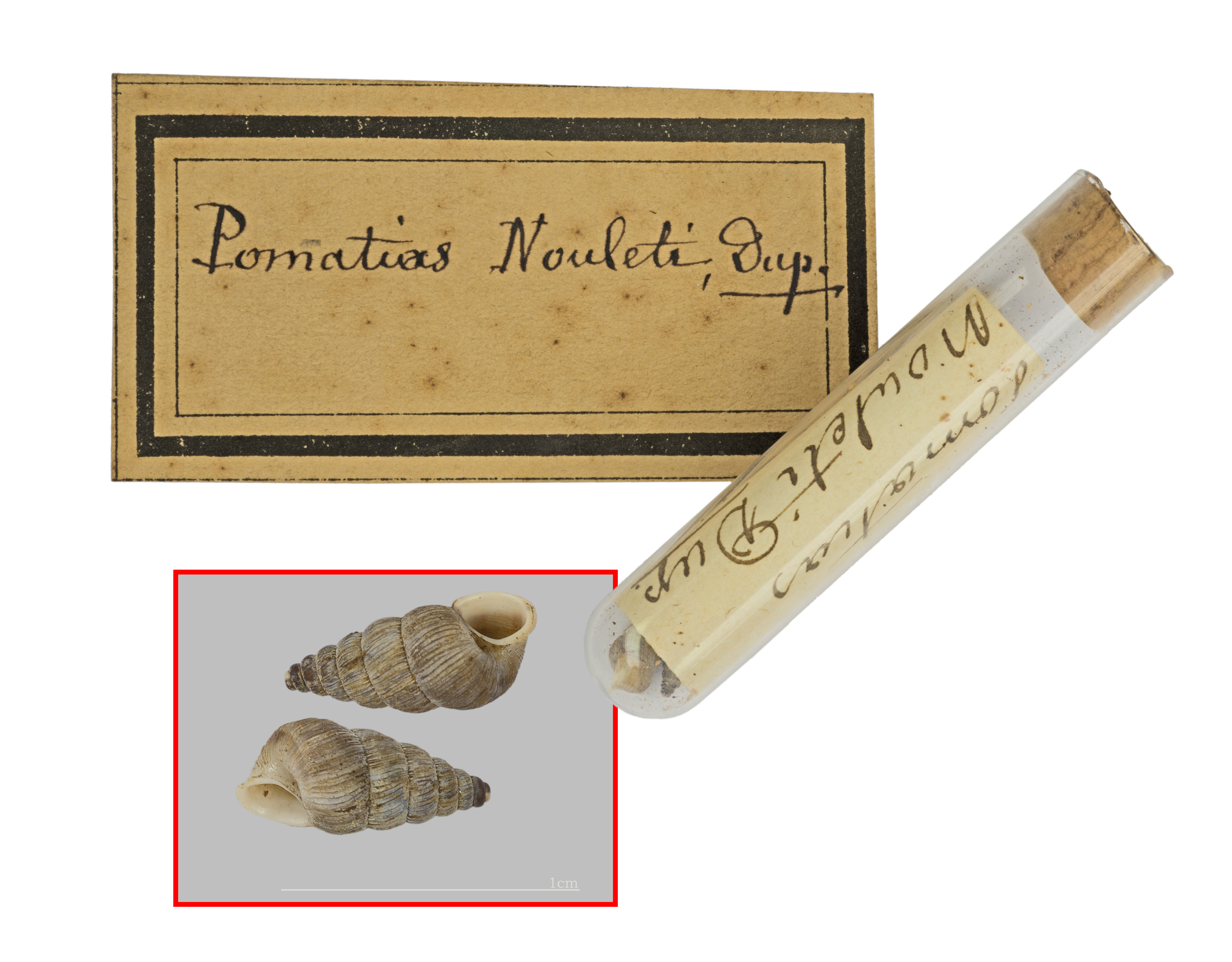 Shells of Cochlostoma nouleti.Dedicated to Jean-Baptiste Noulet. Syntype.